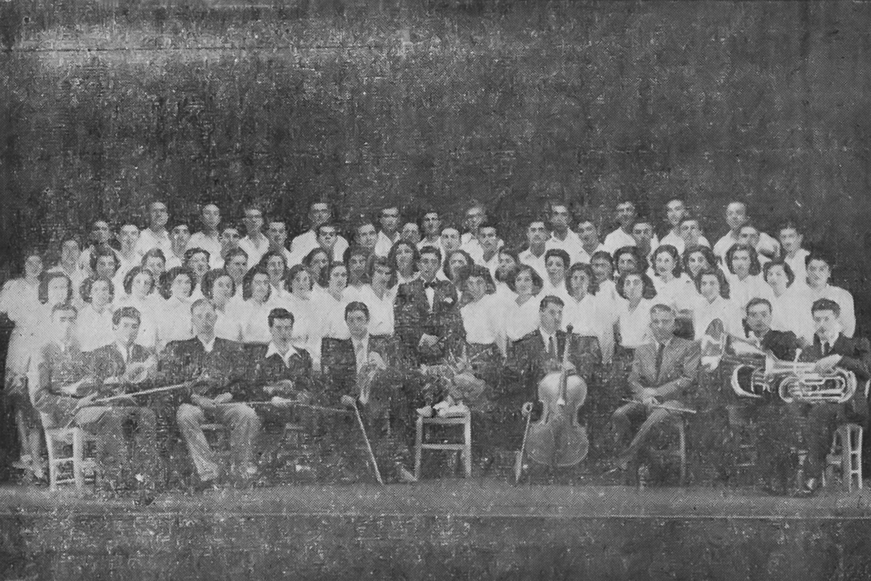 The "Friends of Armenia Association" (Paregamats) choir and band (1947)